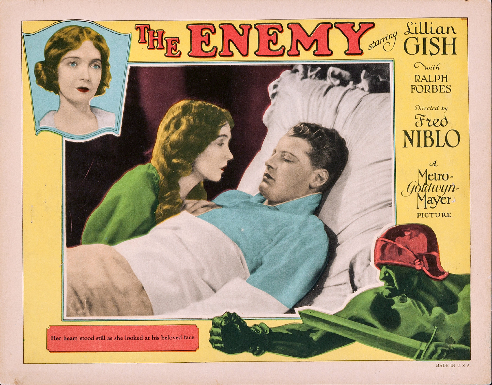 Lobby card for the American drama film The Enemy (1927). The item has no copyright markings on it as can be seen in the links above. At bottom right is Made in USA.